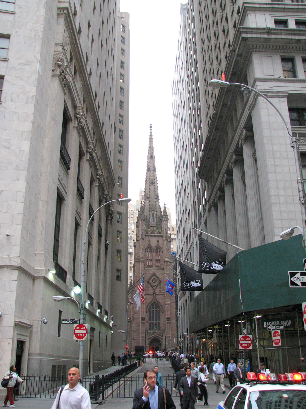 Trinity Church in New York City